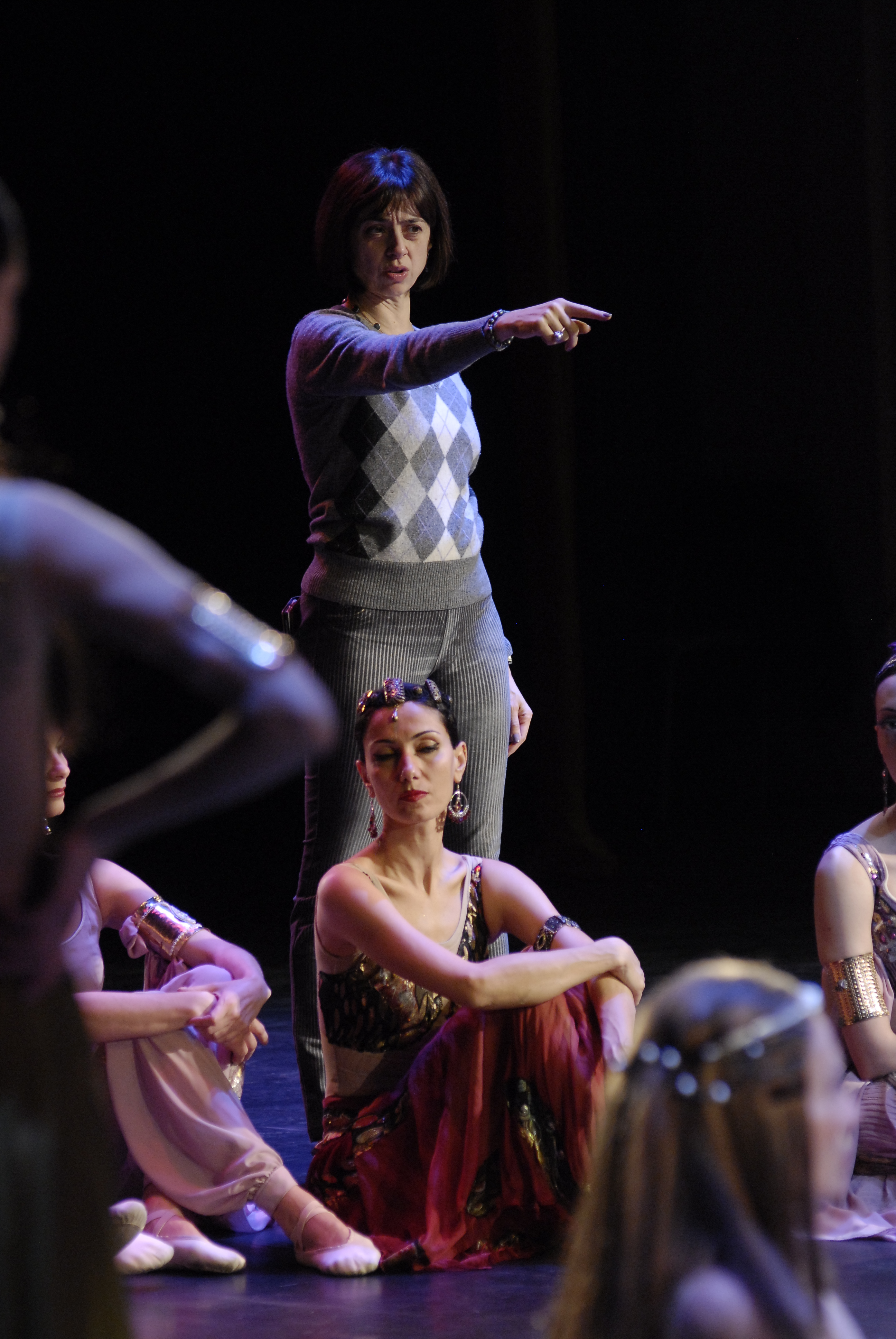 Nina Ananiashvili at Gorda rehearsal